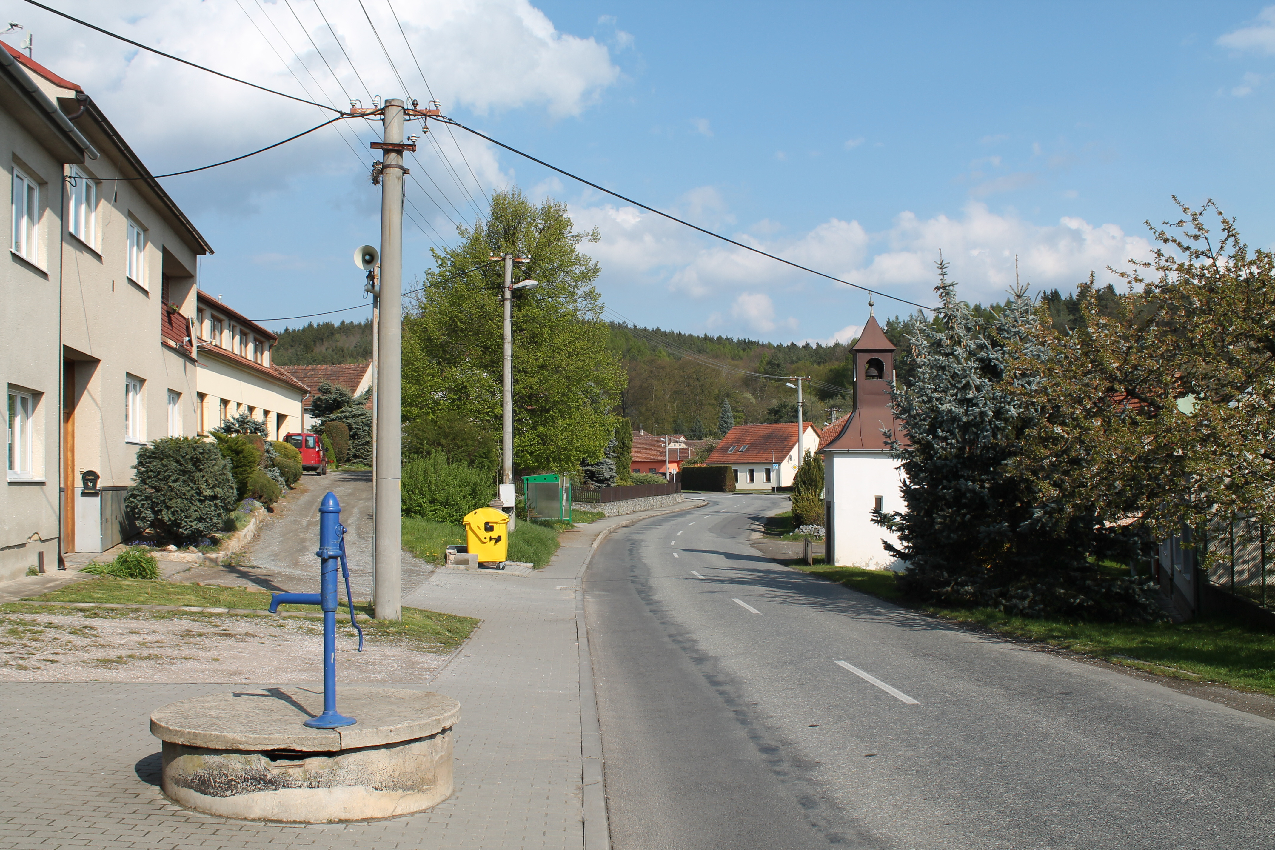 Nuzířov, Malhostovice, Brno-venkov District, Czech Republic This photograph was taken during a group photography field trip by Brno Wikipedians: 2017-04-29.